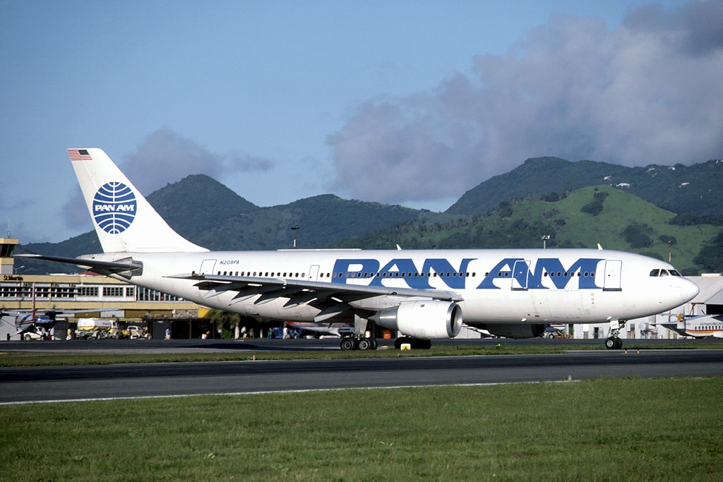 "Clipper Boston"